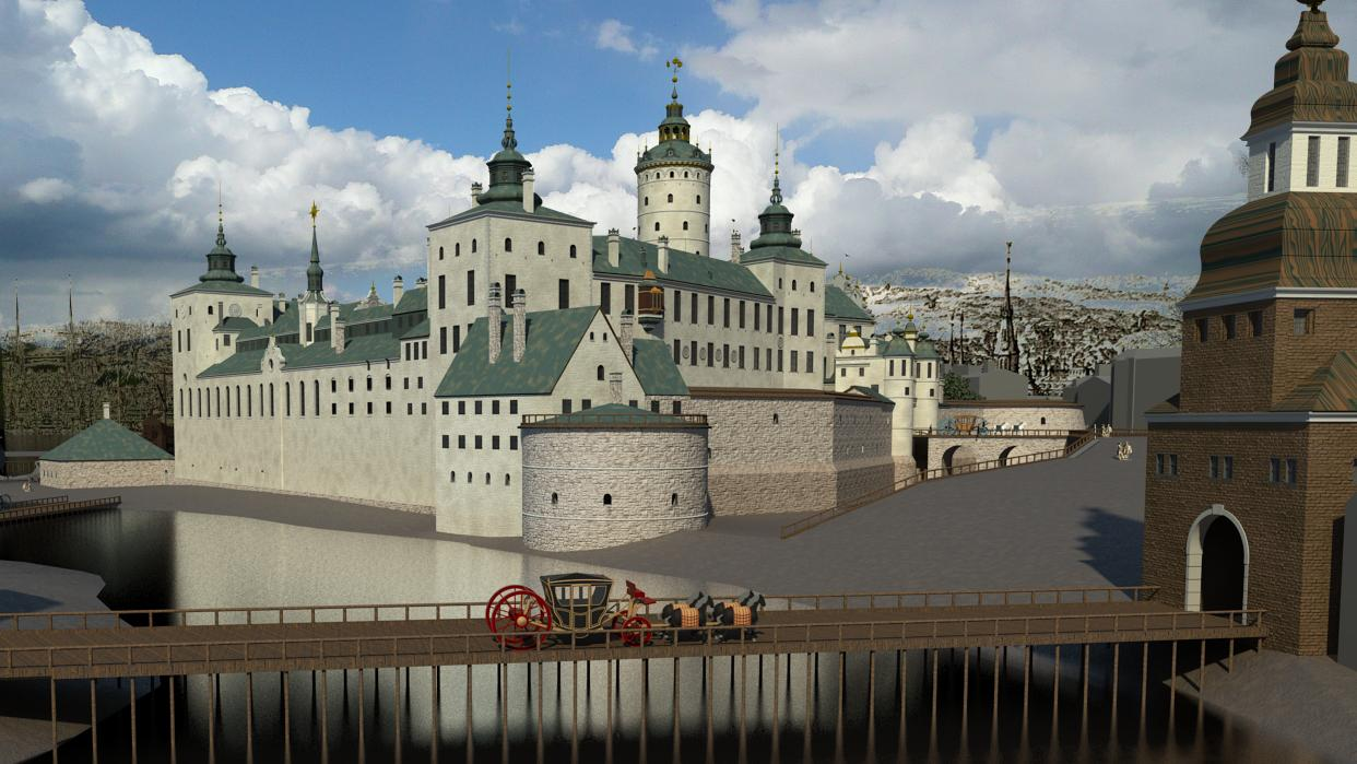 Computer generated model, View from Stadsport.